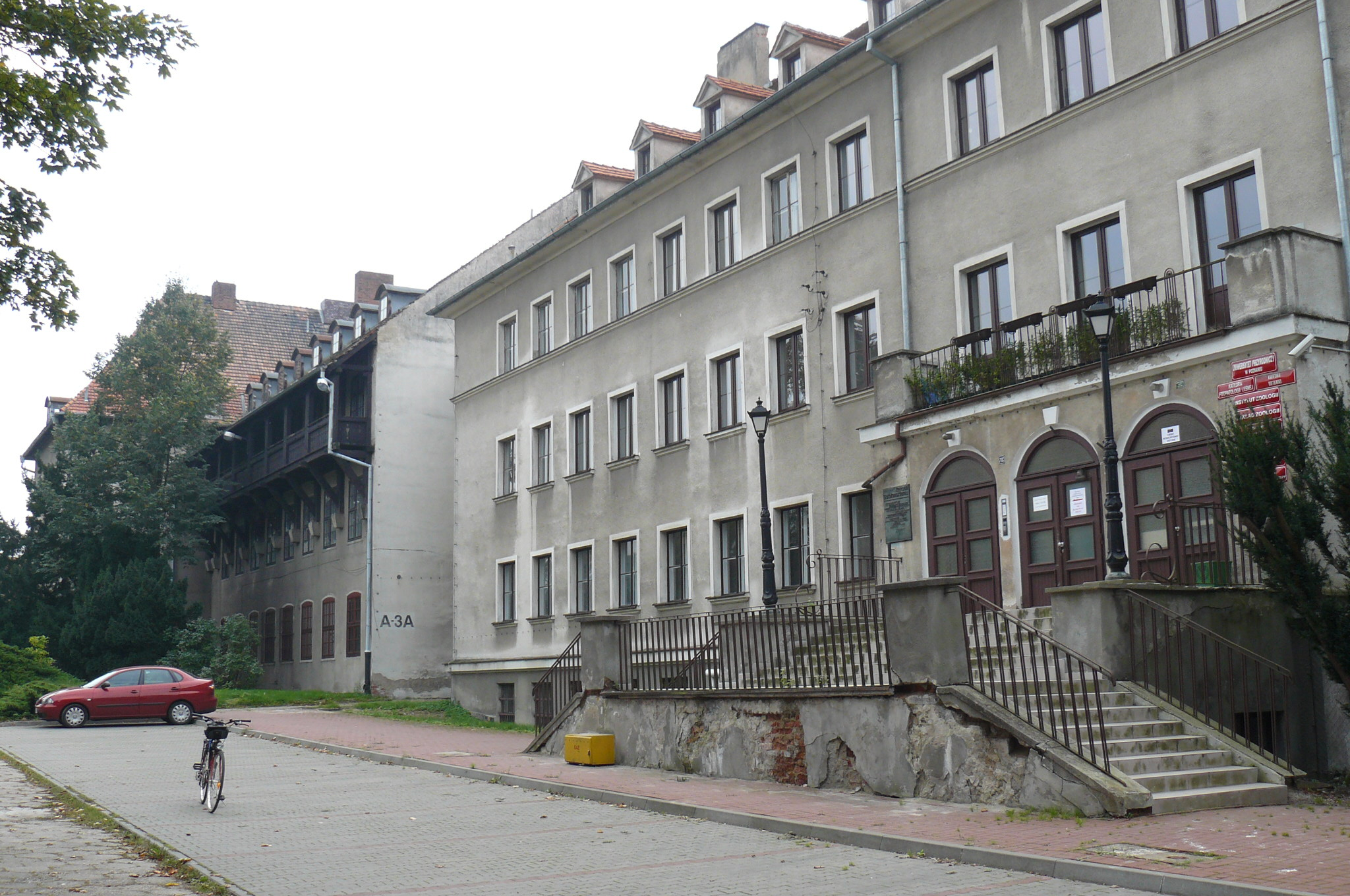 Collegium Cieszkowskich Poznan.